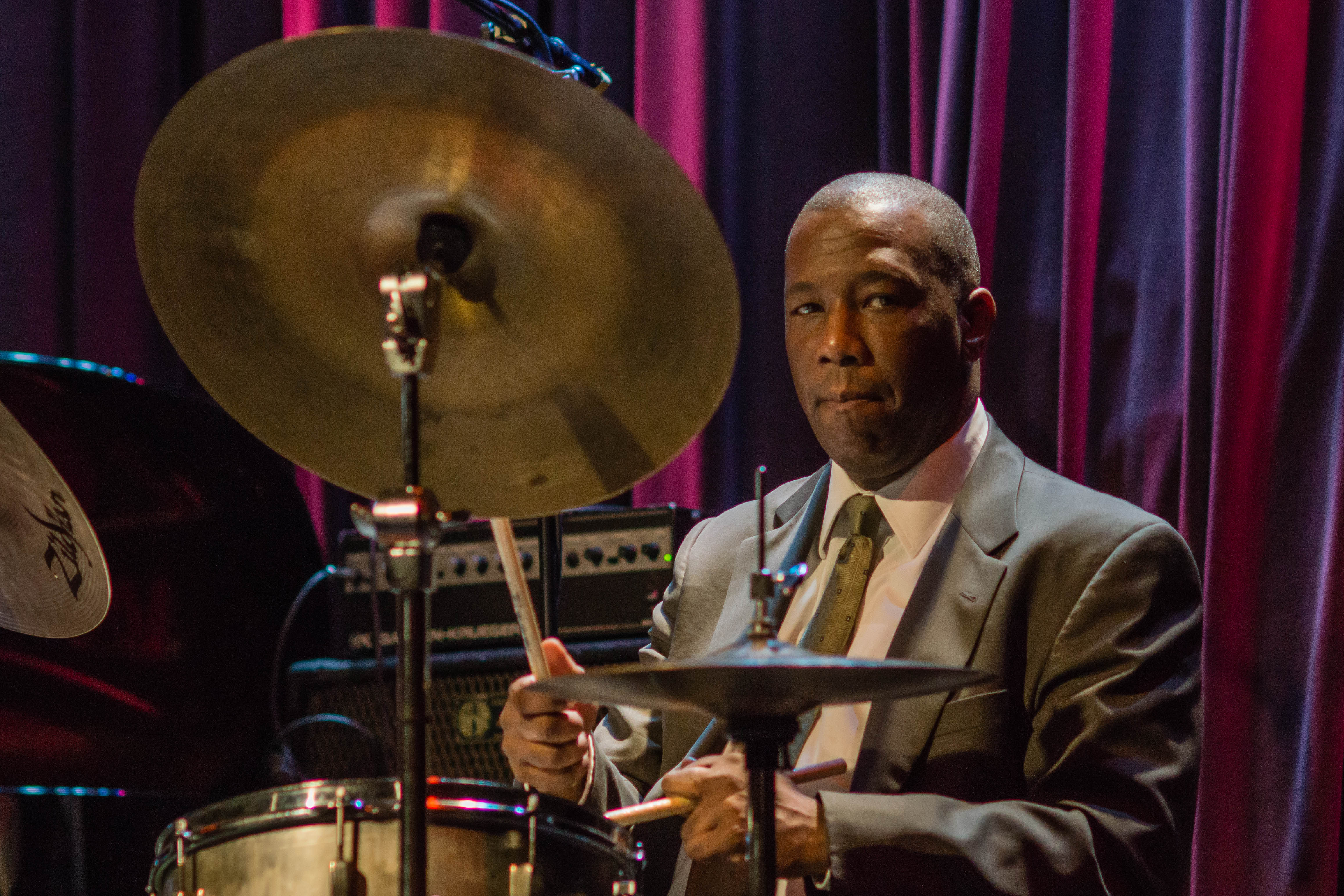 Kenny Washington on drums. Bill Charlap Trio @ Dimitriou's Jazz Alley.